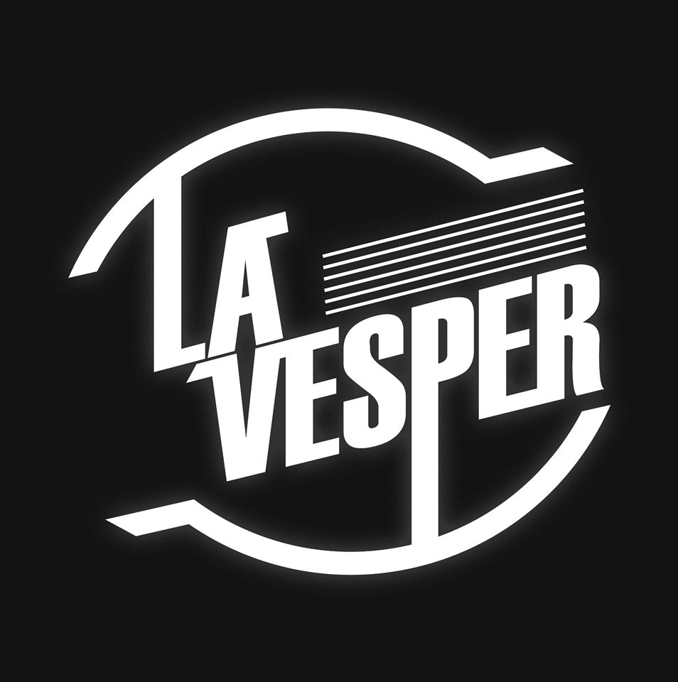 Official logo for La Vesper, band from Venezuela currently operating in Madrid.